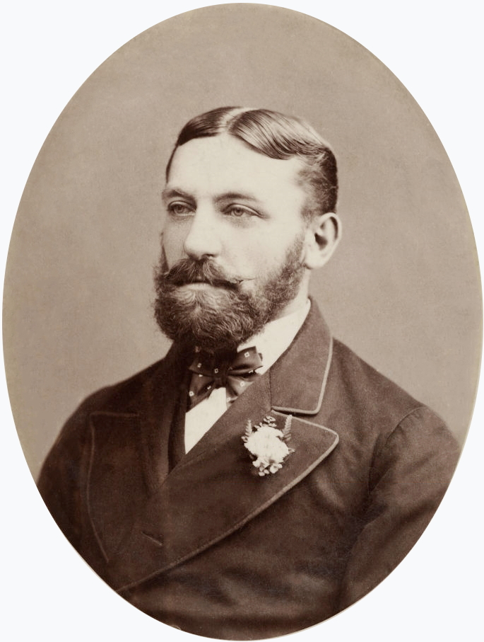 Lancashire and England cricketer RG Barlow photographed in the studio of William Bardwell at 21 Collins Street, Melbourne, Australia, circa December 1882.